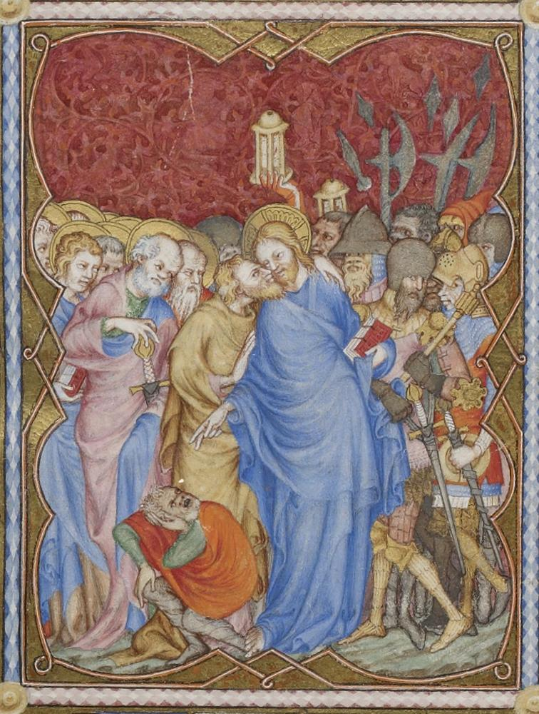 Miniature depicting Jesus betrayal in the Garden of Gethsemane from the Petites Heures of Jean de France, Duc de Berry